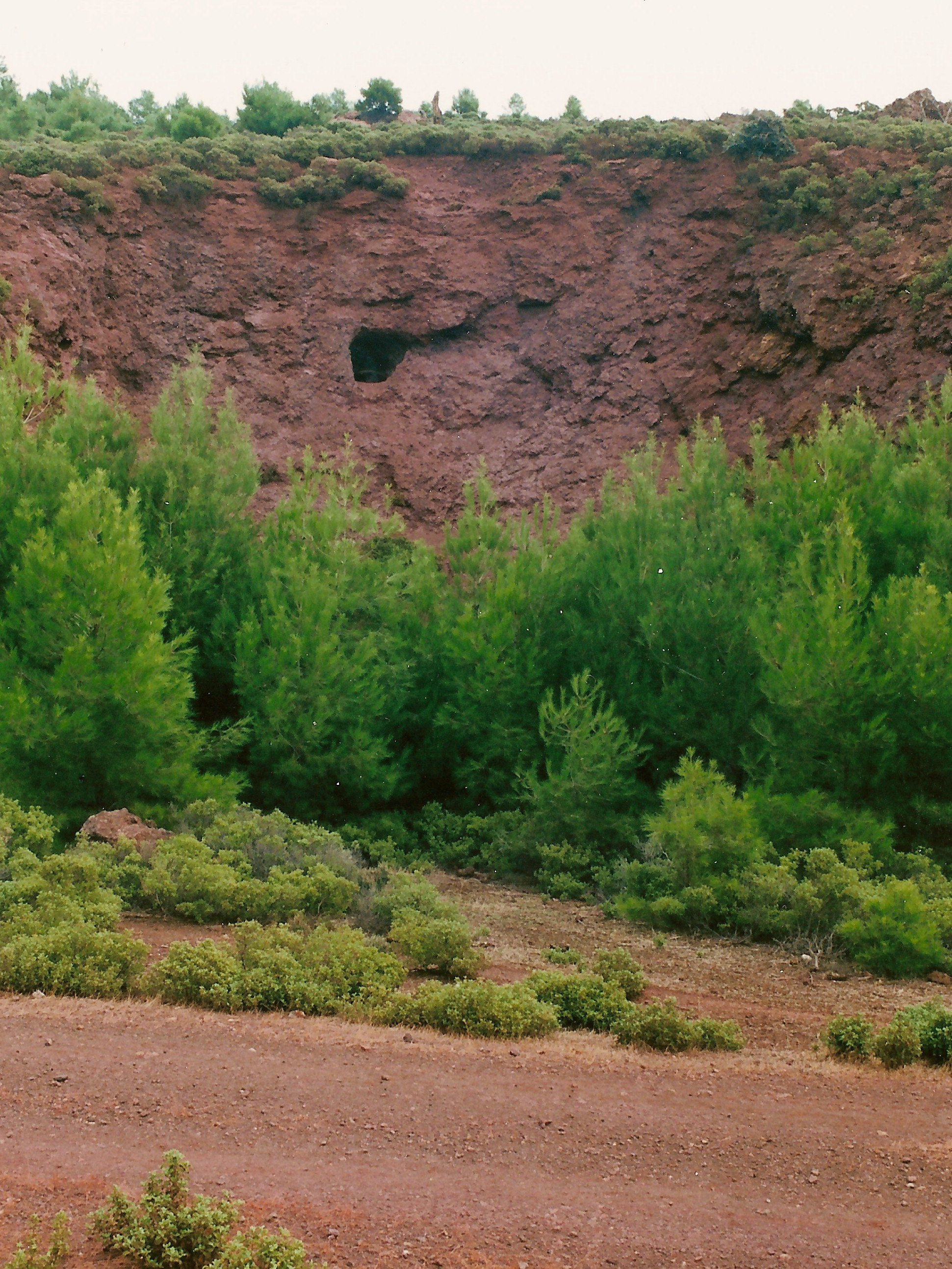 Paleolithic addit in Tzines iron mines, Thasos